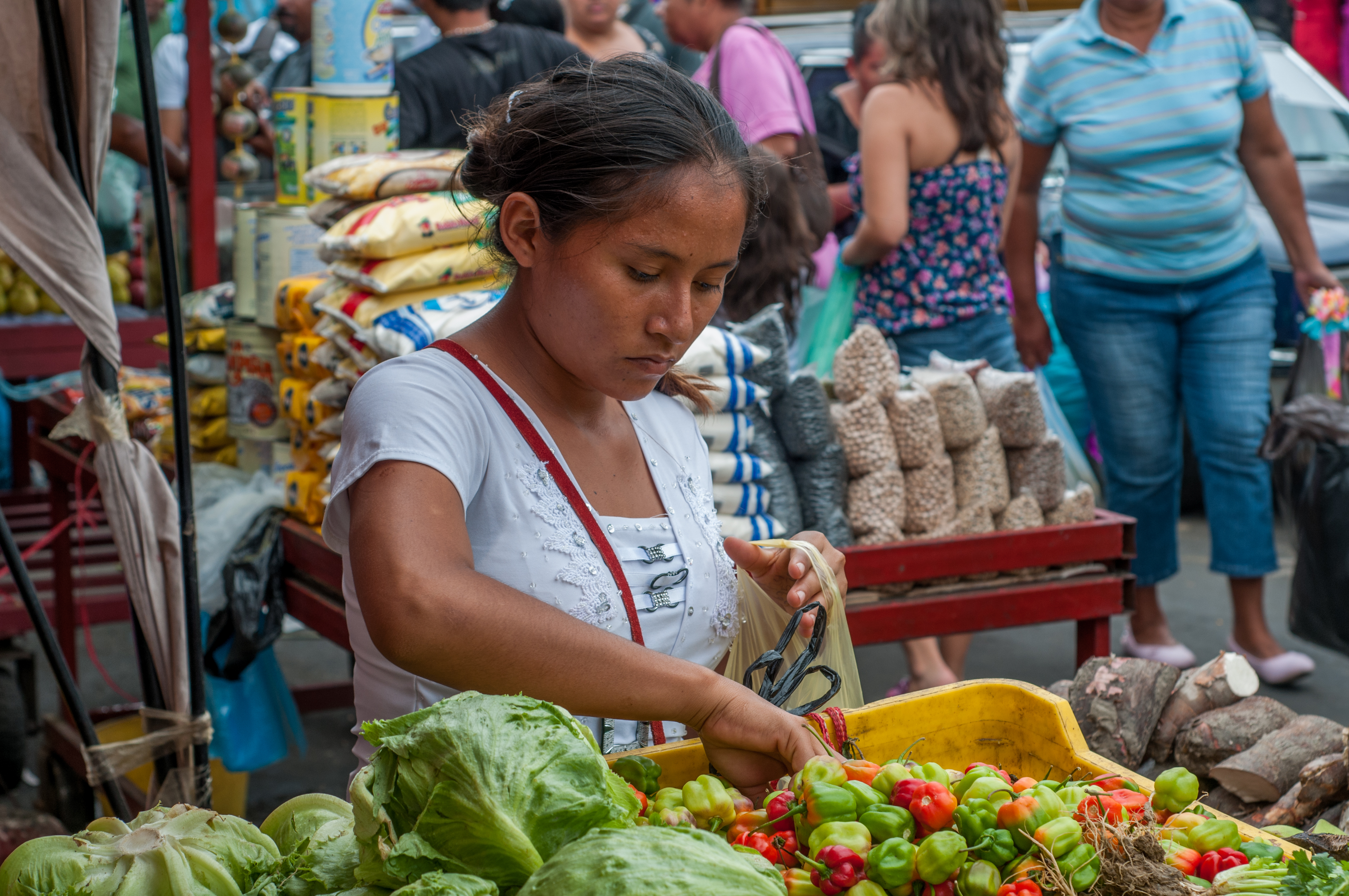 Woman buying peppers